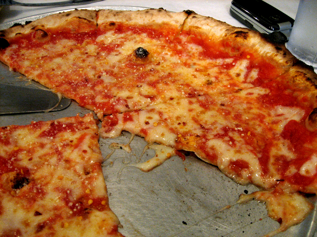 Patsy's Pizza